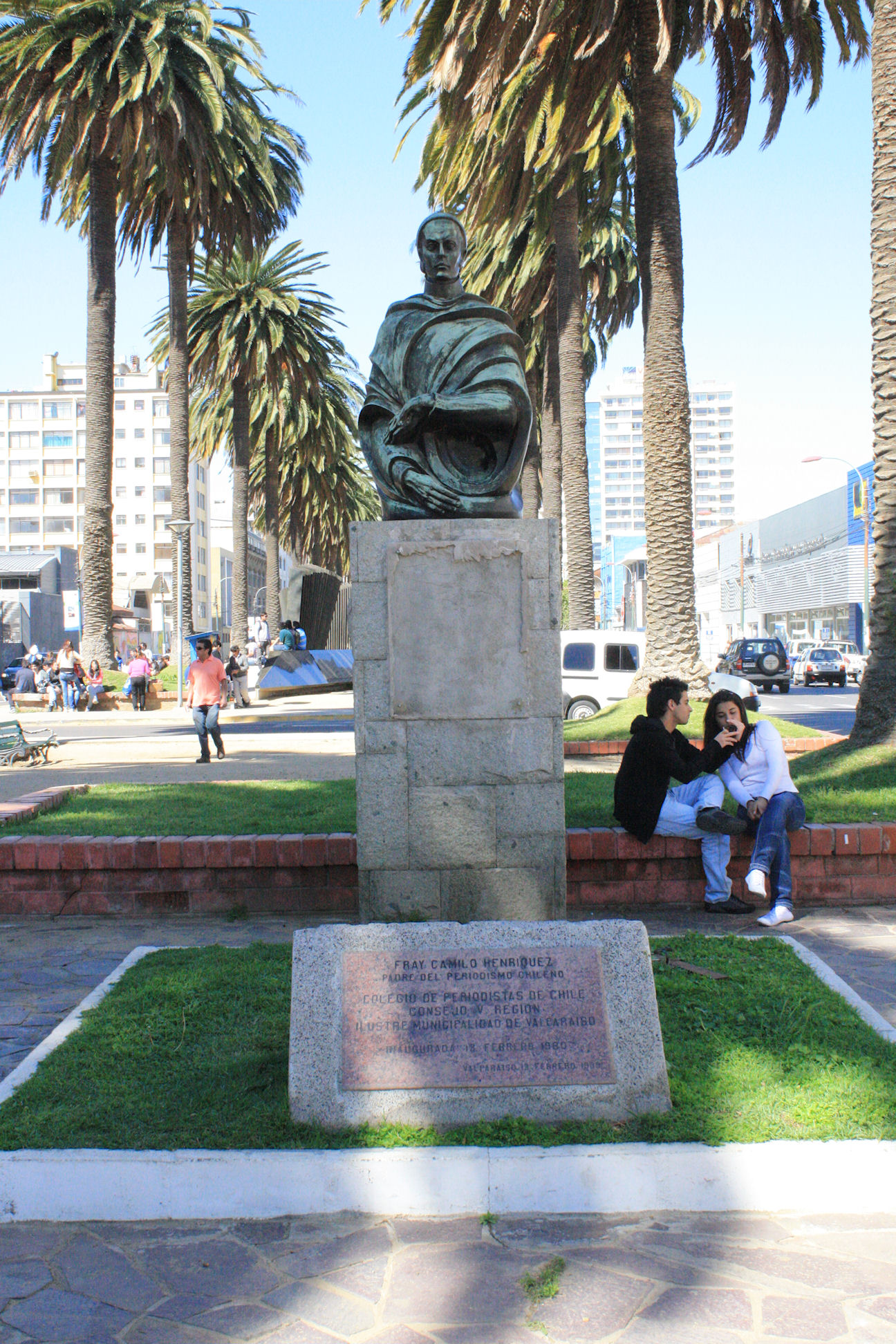 The statue of Fray Camilo Henriquez in Valparaiso